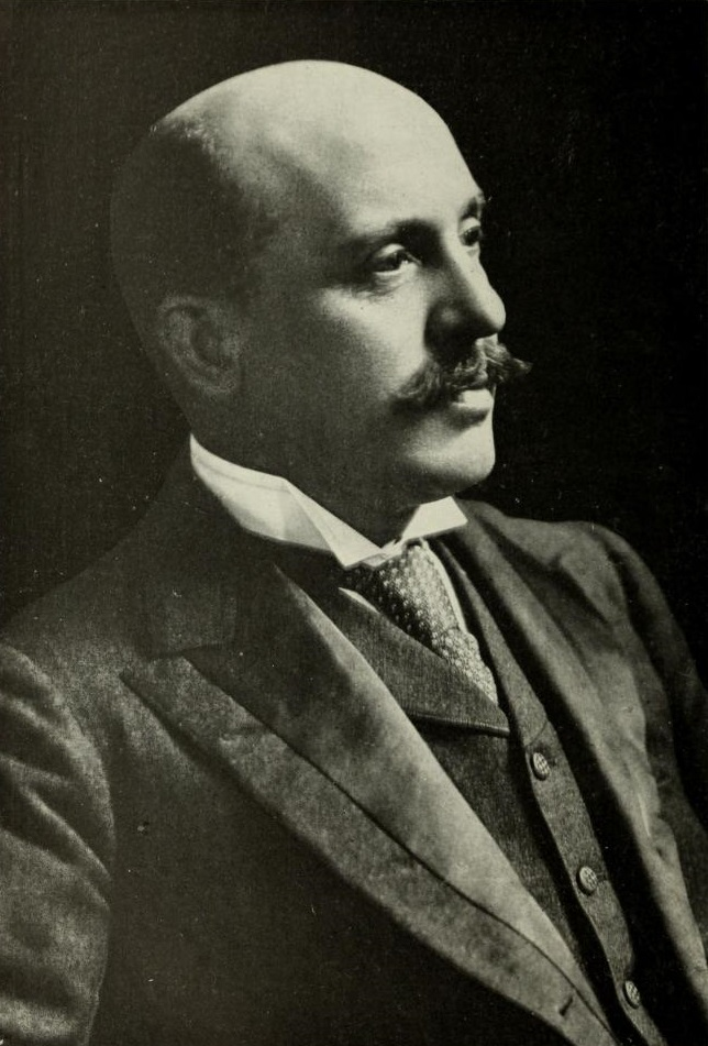 Portrait of Weetman Pearson, 1st Viscount Cowdray